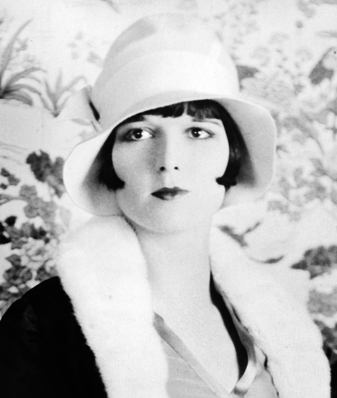 American actress Louise Brooks